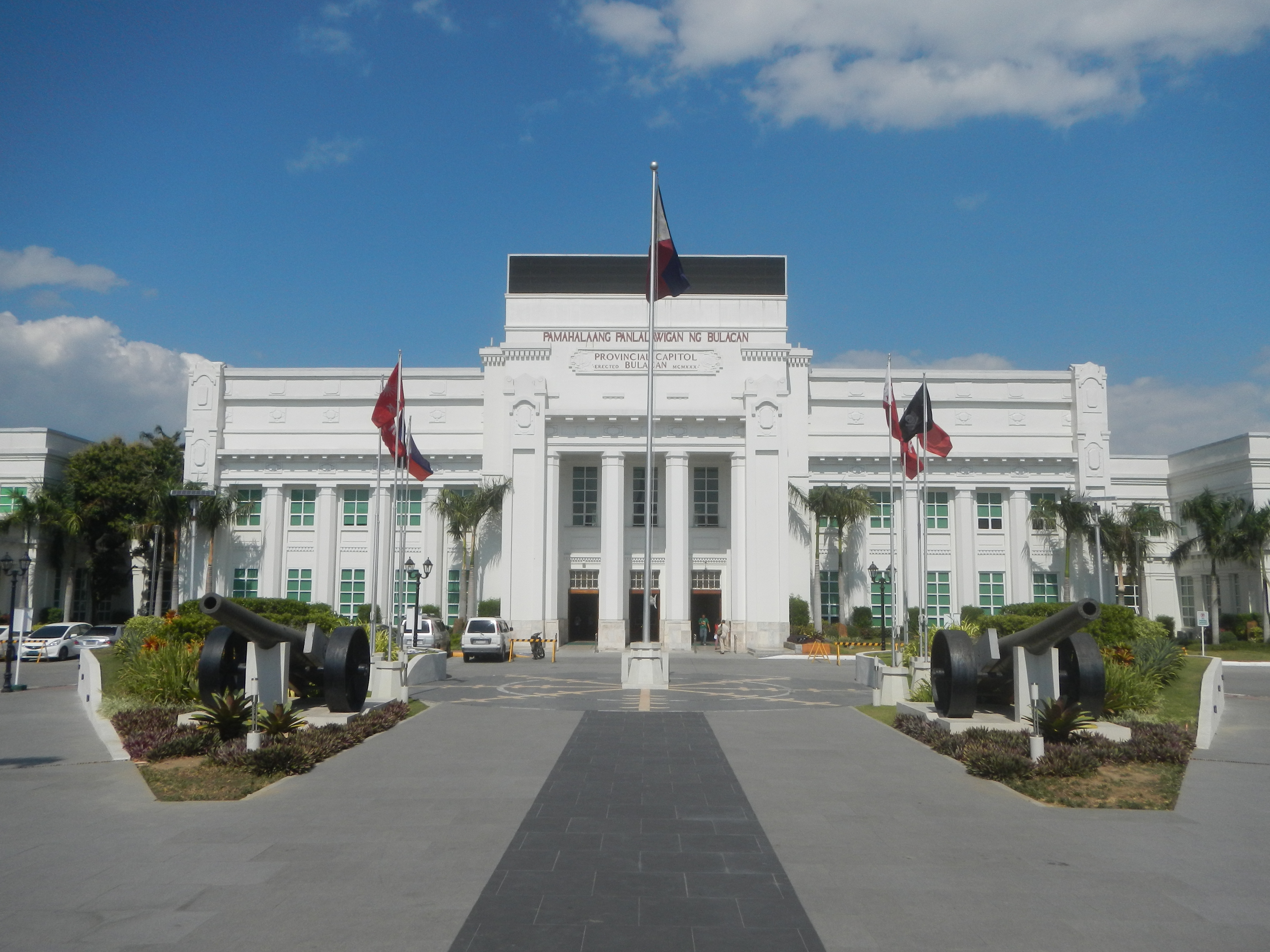 Newly Renovated Bulacan Provincial Capitol Building largest mural in the Philippines, entitled “Kasaysayan ng Bulacan” Amadeo Yabut Manalad murals on Philippines’ past Barangay Guinhawa 14.8468, 120.8494 Malolos City, Bulacan (along MacArthur Highway or Manila North Road Philippine highway network (Note: Judge Florentino Floro, the owner, to repeat, Donor Florentino Floro of all these photos hereby donate gratuitously, freely and unconditionally Judge Floro all these photos to and for Wikimedia Commons, exclusively, for public use of the public domain, and again without any condition whatsoever).